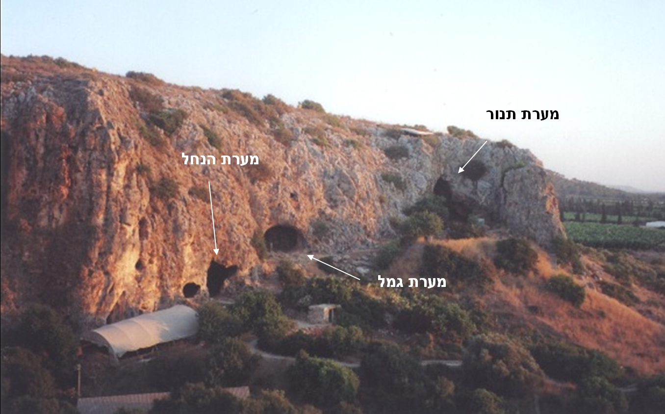 The Nahal Me'arot cliff, Mount Carmel, Israel, showing the prehistoric caves of el-Wad, Jamal and Tabun